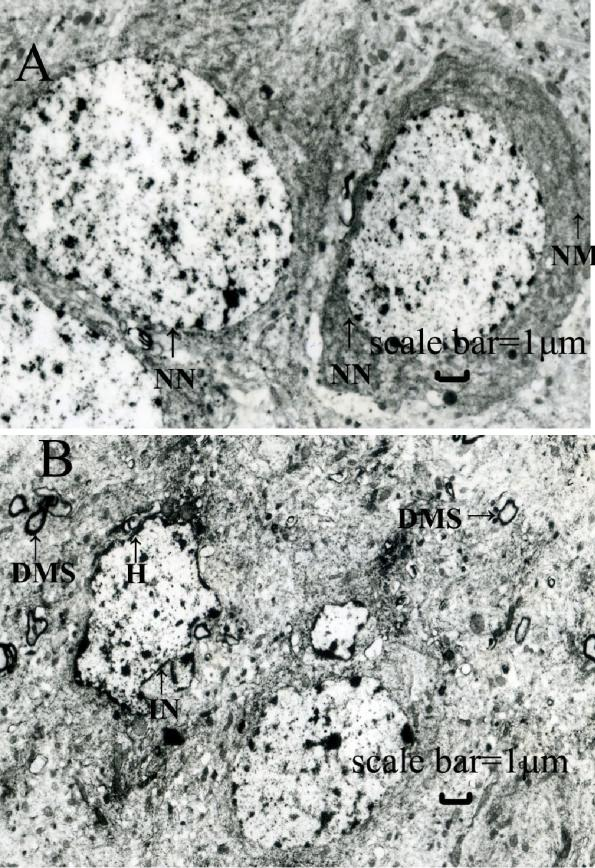 accompanying text reads, "Representative electron micrographs of coronal sections of the rat hippocampus are shown. (A, C, and E) control hippocampus. (B, D and F) lead-exposed hippocampus in rats at weaning that were treated with 0.2% lead acetate during the gestational and lactational periods as described. Abnormal appearance of neurons including irregular shaped nucleus, swollen mitochondria, often vacuolated with disrupted cristae, a large quantity of heterochromatin collected inside the nucleus, demyelination or shrinkage, and denaturation of the myelin sheath were observed. These findings suggest that hippocampal ultrastructures were injured by lead exposure during the early stage of life. Scale bar = 1 μm. NN: normal nucleus; IN: irregular nucleus; SM: swollen mitochondria; VM: vacuolated mitochondria; NM: normal mitochondria; H: heterochromatin; DMS: denaturation of myelin sheath." (only A and B are used in this modification of the image).